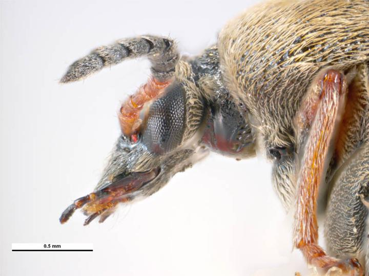 Bruchus rufimanus collected on broad beans in Italy, 12 December 1972